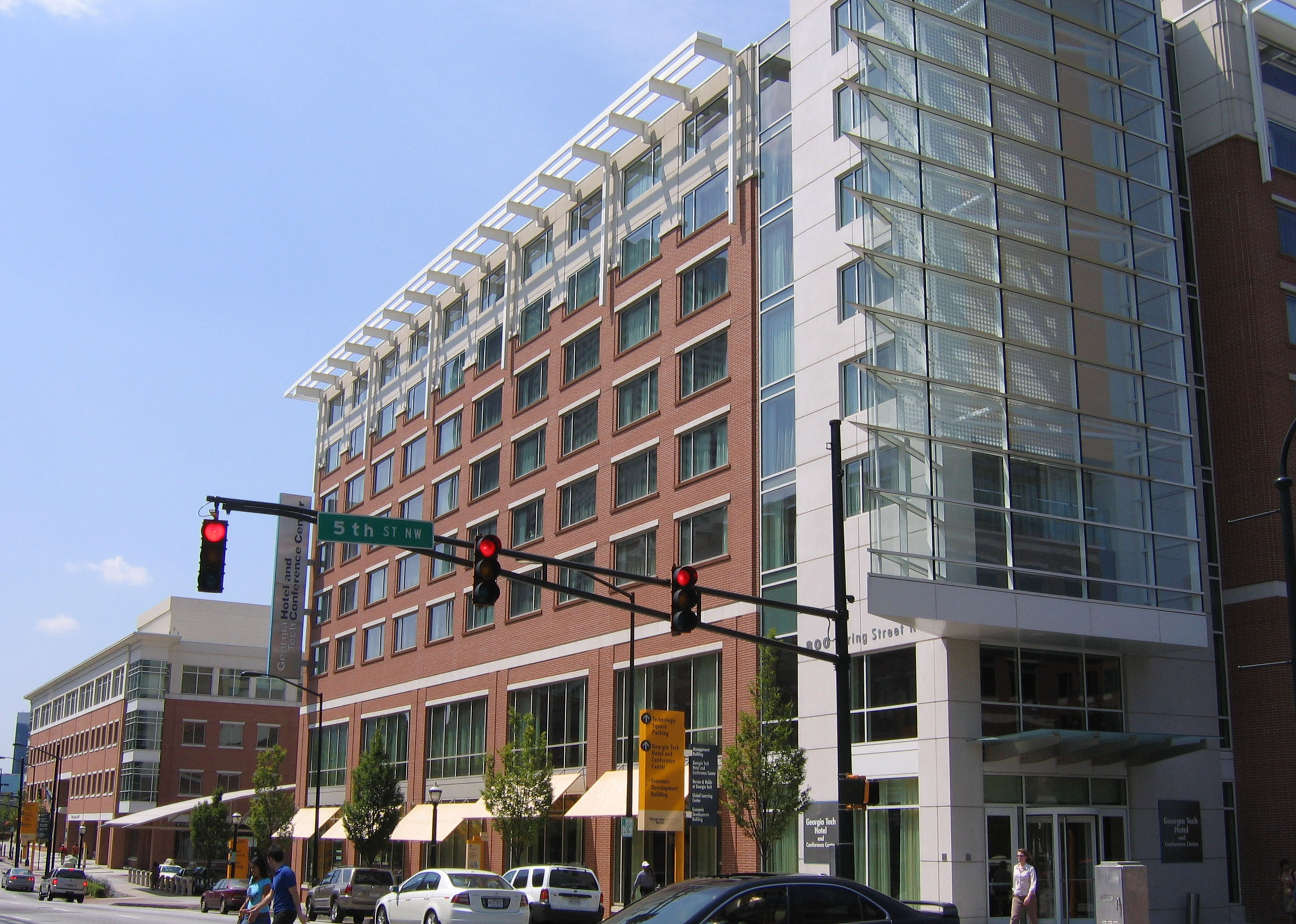 A view of the Georgia Tech Hotel and Conference Center's exterior, as seen from the corner of 5th Street and Spring Street. The traffic signal somewhat obscures the view, sadly.